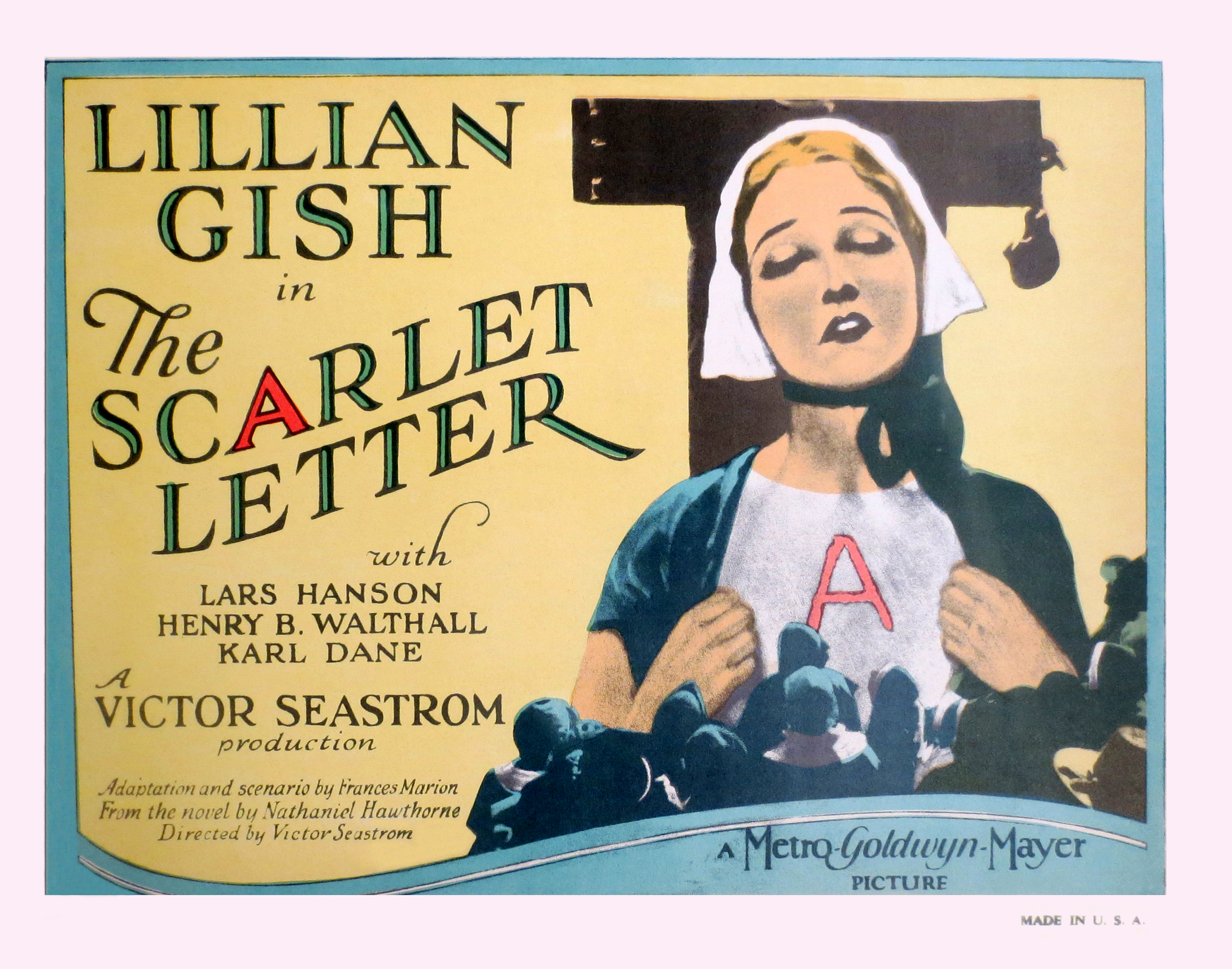 Lobby card for the film The Scarlet Letter that is clearly not marked with a copyright notice.